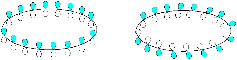 Mobius vs Huckel